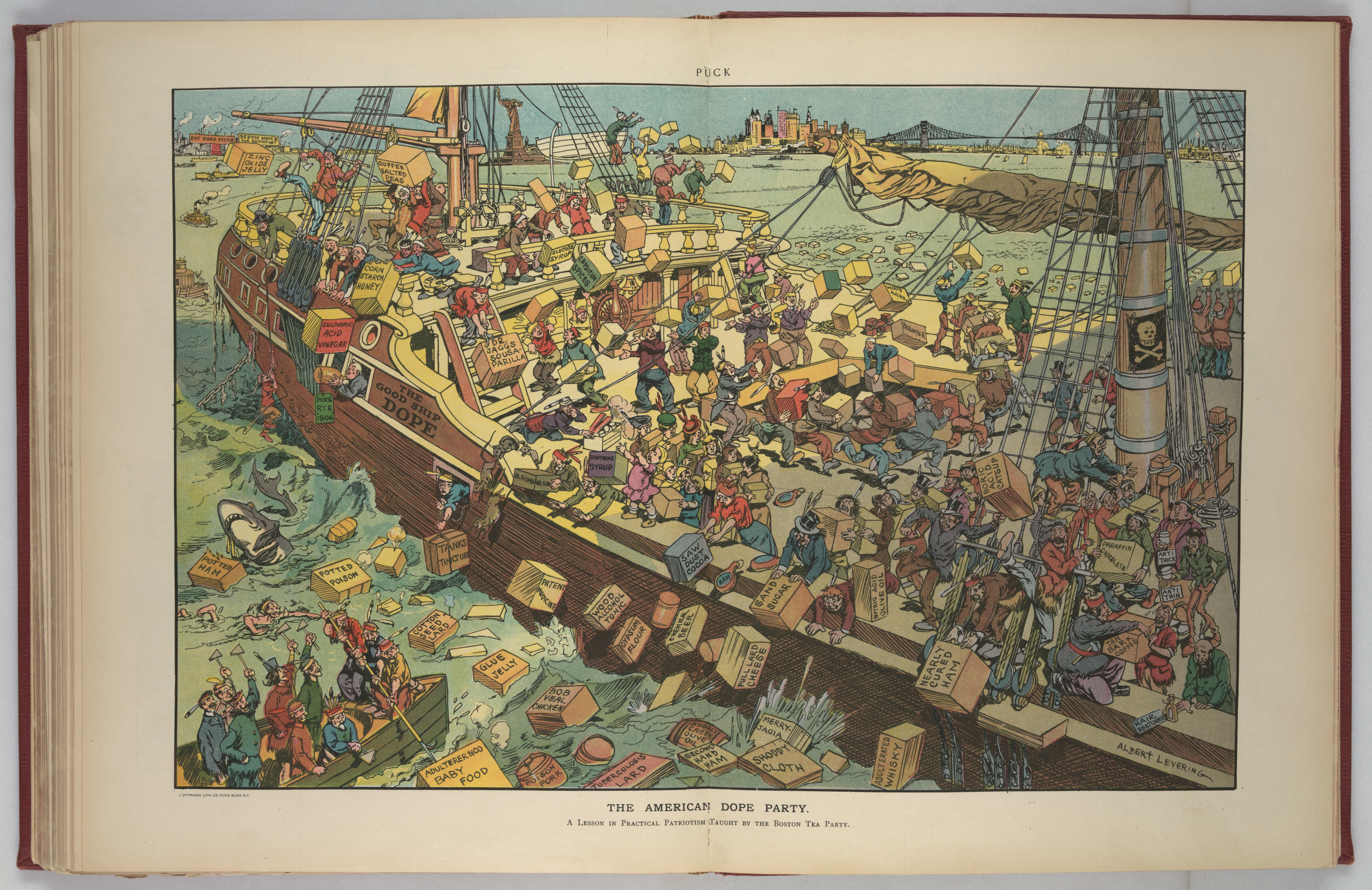 An illustration in the Puck magazine.